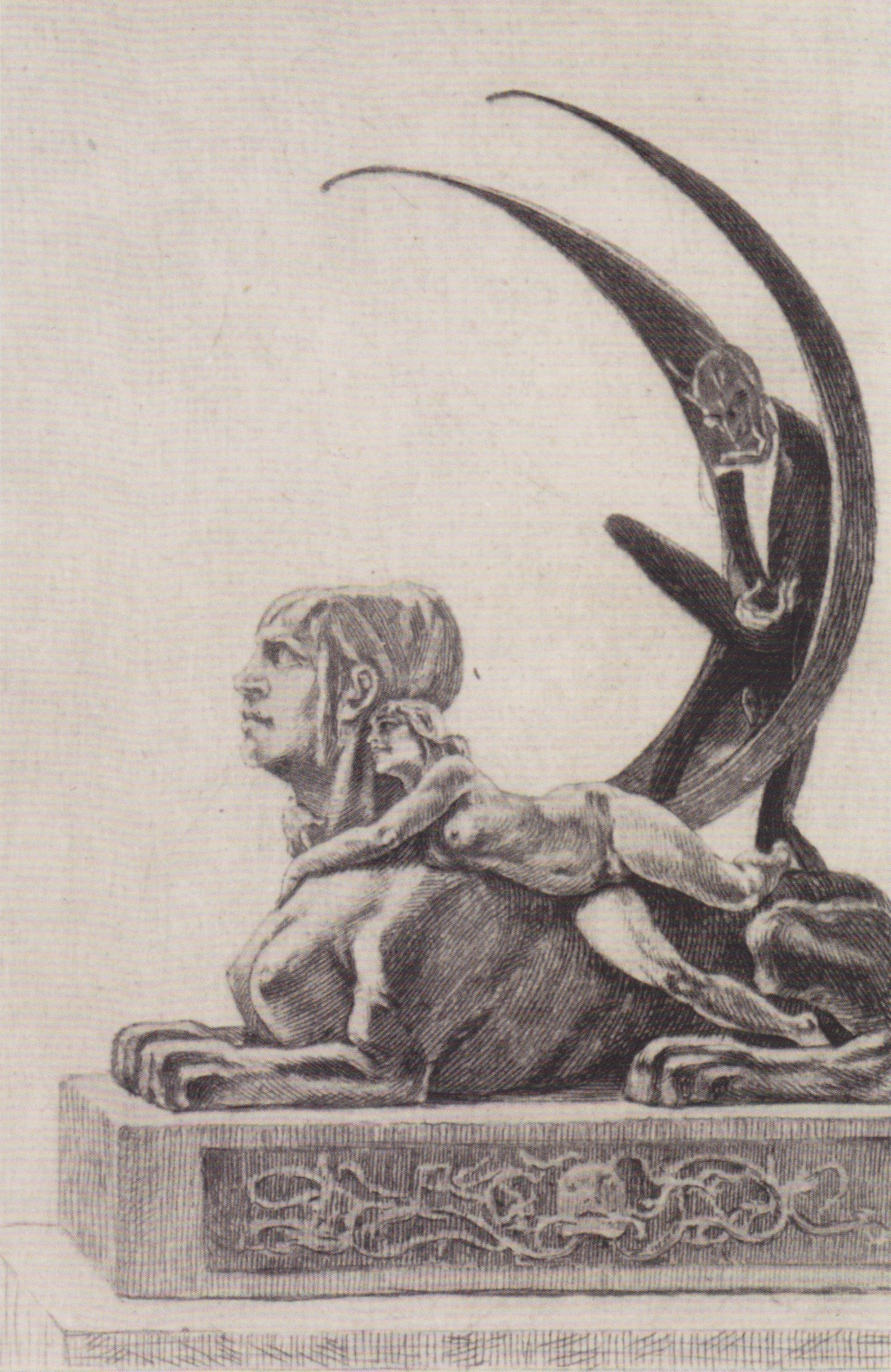 An illustration for Les Diaboliques (The She-Devils, originally published 1874) by Jules Amédée Barbey d'Aurevilly.